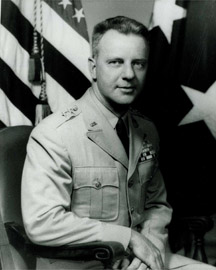 US Army Major General John L. Richardson